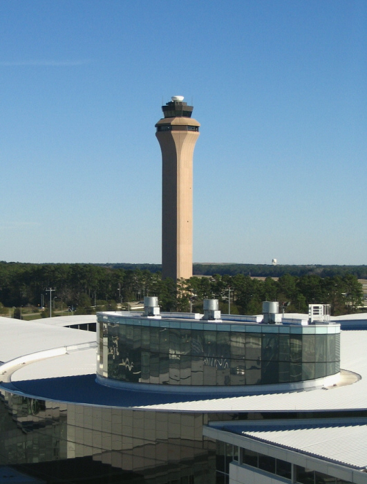 Photo By: Daniel2986 16:14, 16 January 2007 (UTC) George Bush Intercontinental Airport